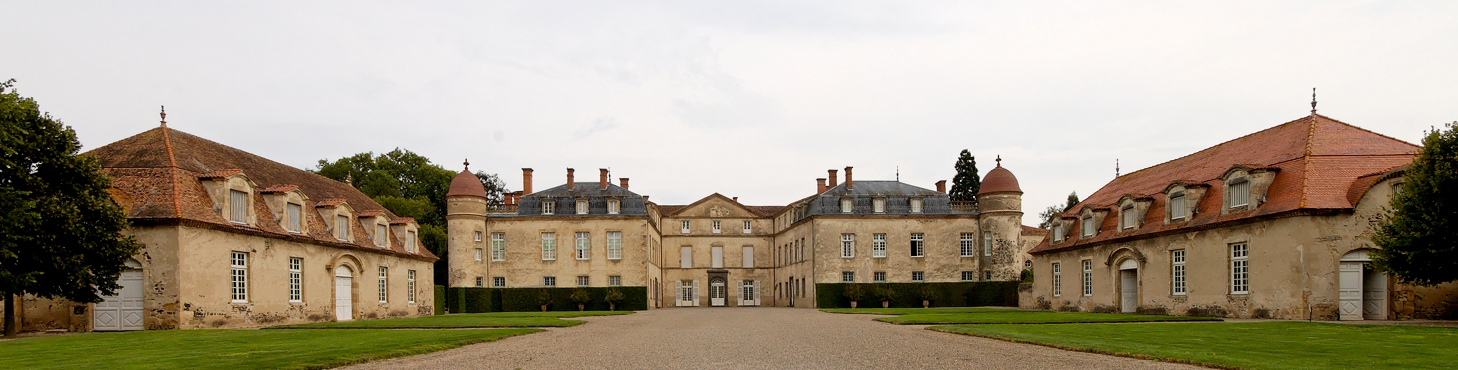 Exterior view of the castle of Parentignat (17–18th centuries), Auvergne, France.